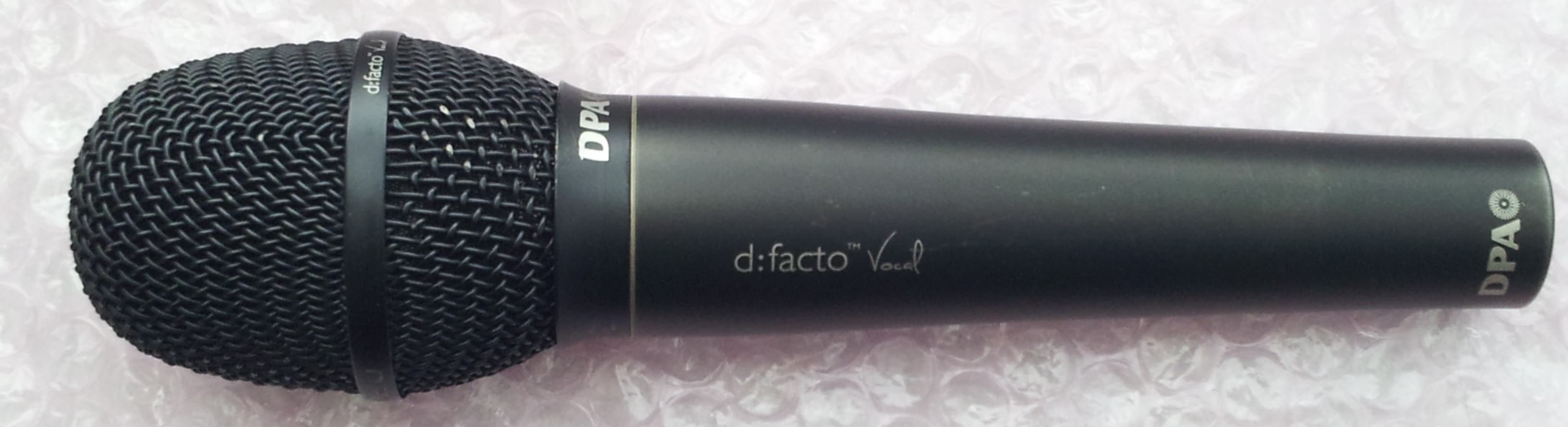 DPA facto Vocal (original, first edition). Microphone with a directional pick-up pattern (supercardioid), suitable for live use with sound reinforcement. The wind screen/pop filter makes it suitable for outdoor use, and close to a mouth when singing, as wind noise and plosives are minimized. The capsule is detachable and interchangeable with an omnidirectional version. First editions has the word "Vocal" in italic type. Second edition has "II" as a suffix instead. The grille, wind screen/pop filters as well as the handle differs between editions, and they are not compatible.